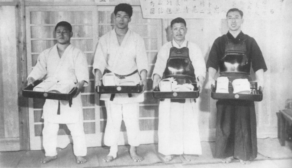 Winners of Shōwa Tenran Jiai in 1934. From left to right : Akira Ōtani (Judo), Ryōkichi Hirata (Judo), Chūjirō Yamamoto (Kendo), Hisashi Noma (Kendo).